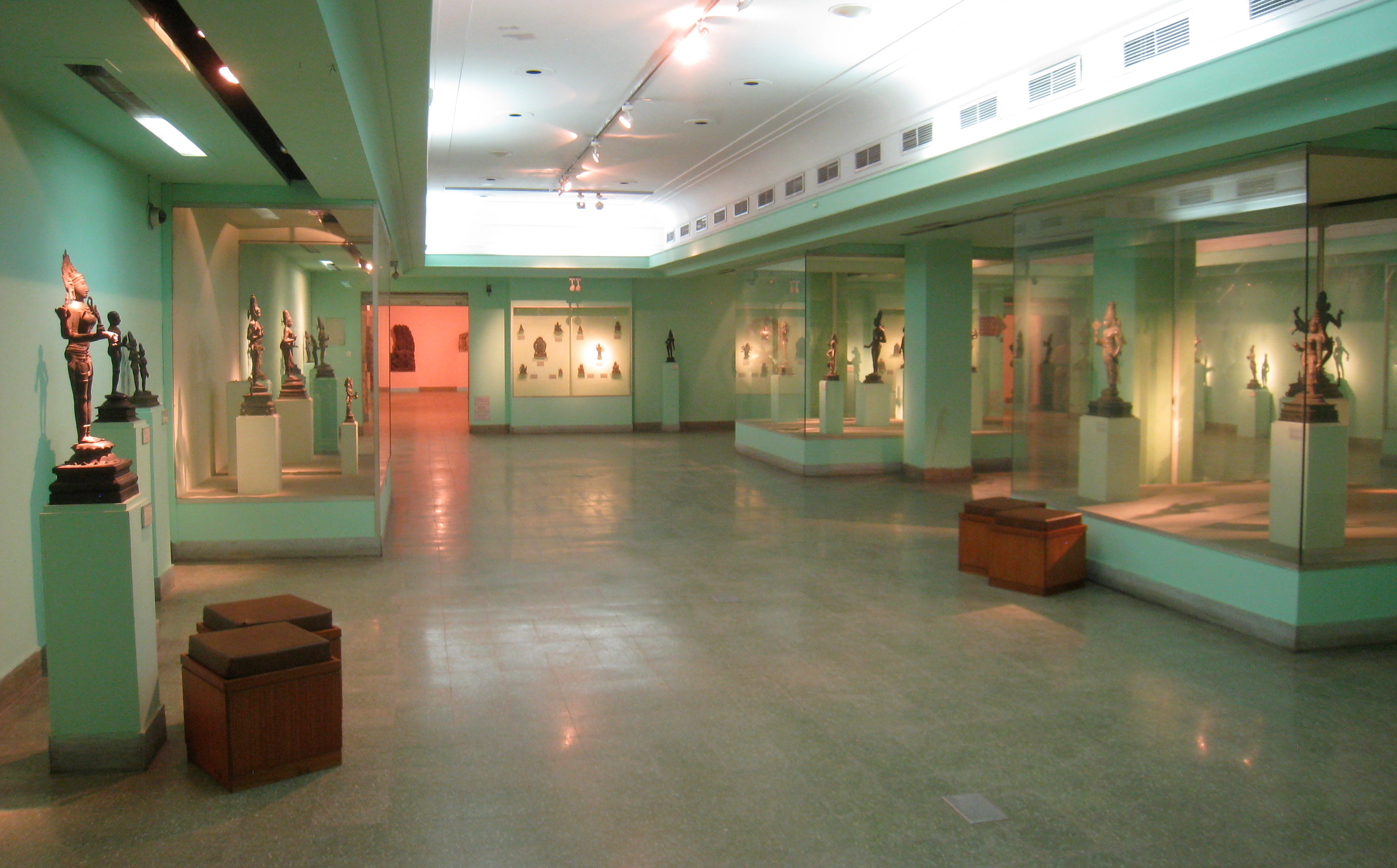 Interior view, National Museum, New Delhi, India.